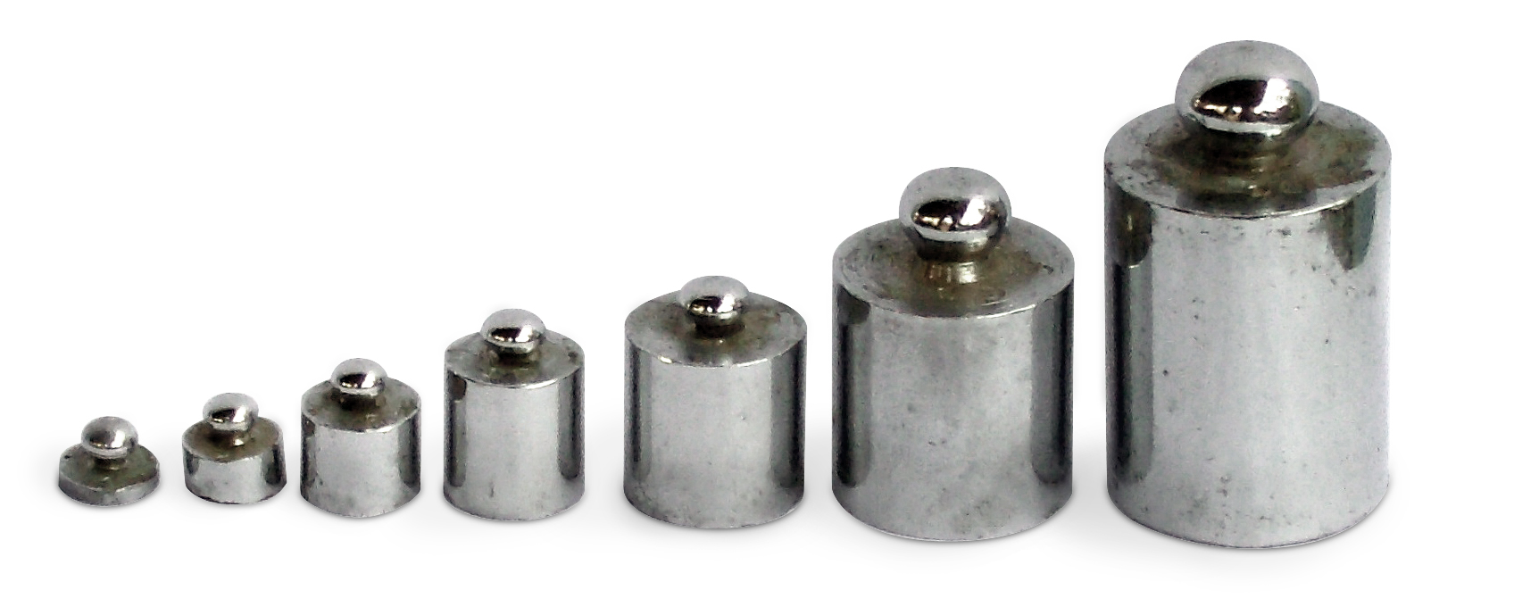 Weights of one (1) to one hundred (100) grams